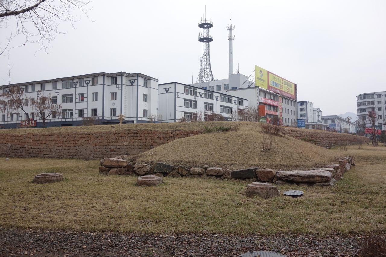 Mound at the corner of Gungnae Fortress (GuoNei Fortress)